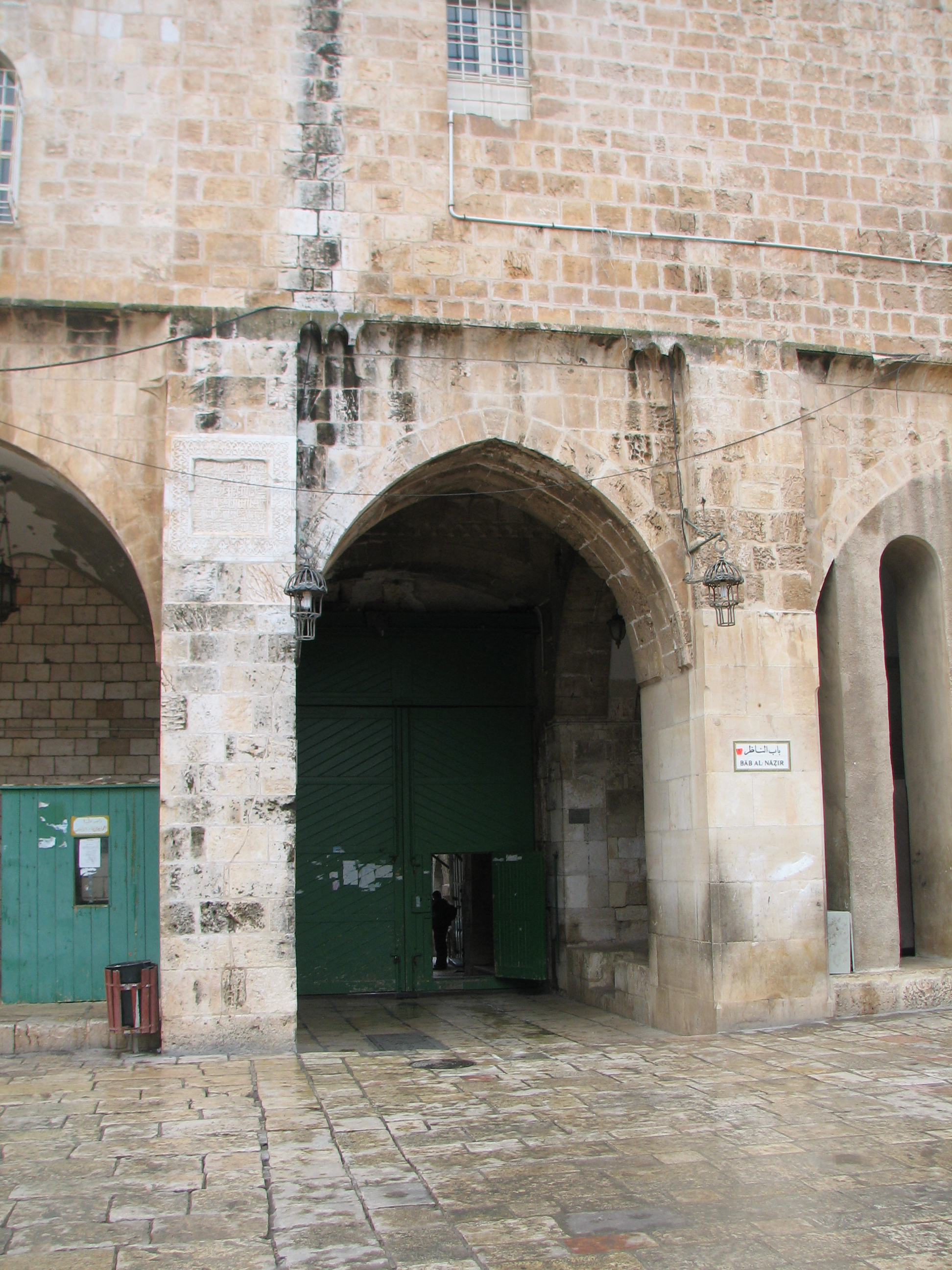 Al-Aqsa Mosque